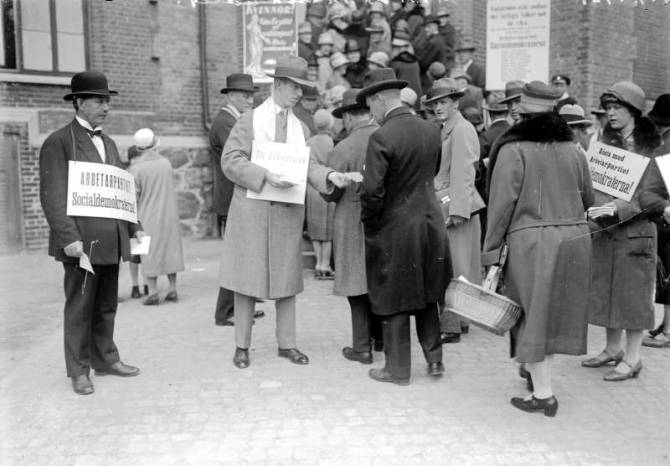 1928 election, party workers handing out ballot papers outside a polling station in Göteborg.